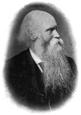 Photograph of Ralph Copeland, the astronomer